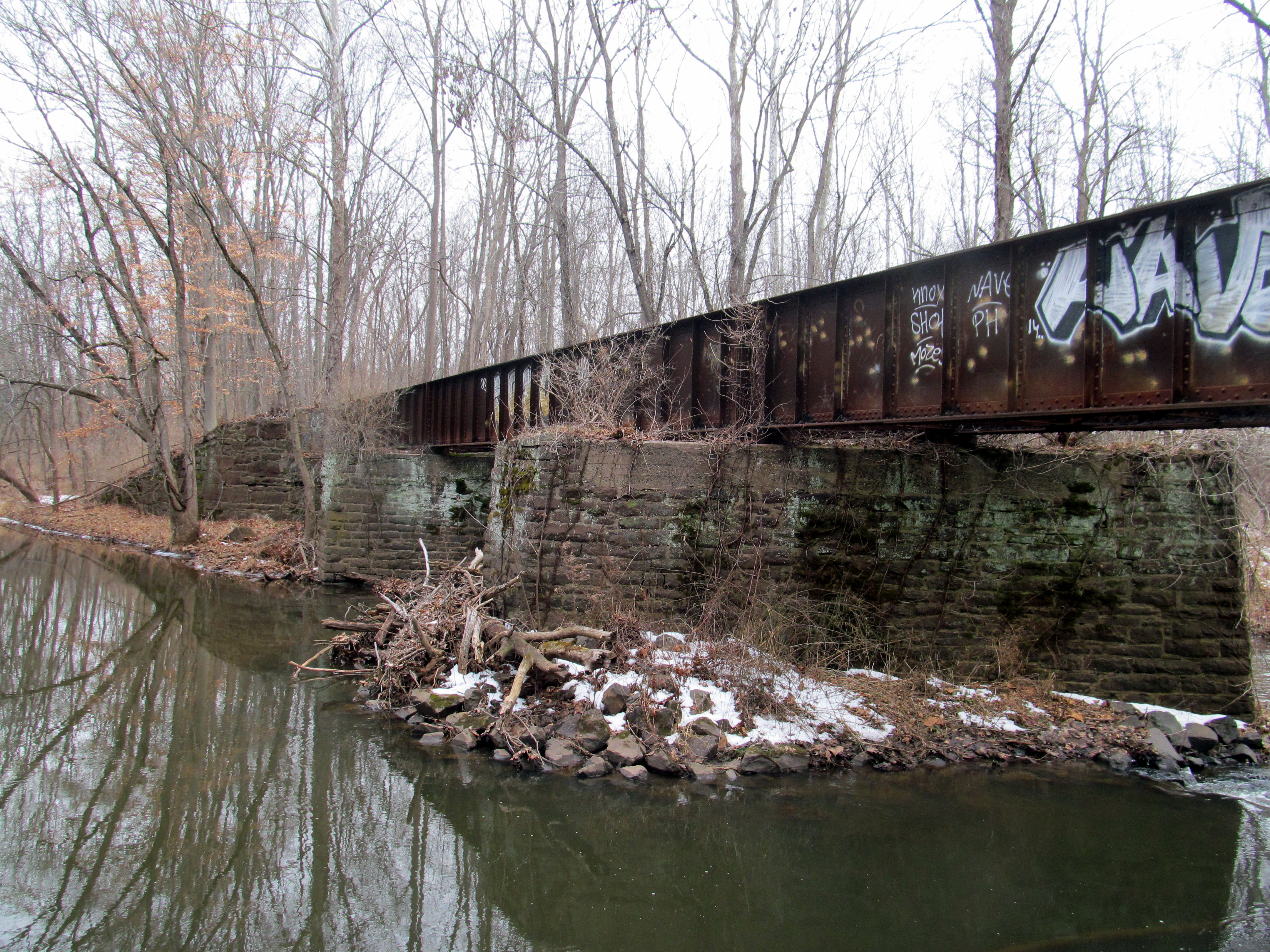 Former Middletown Branch bridge over the Mattabesset River in December 2016